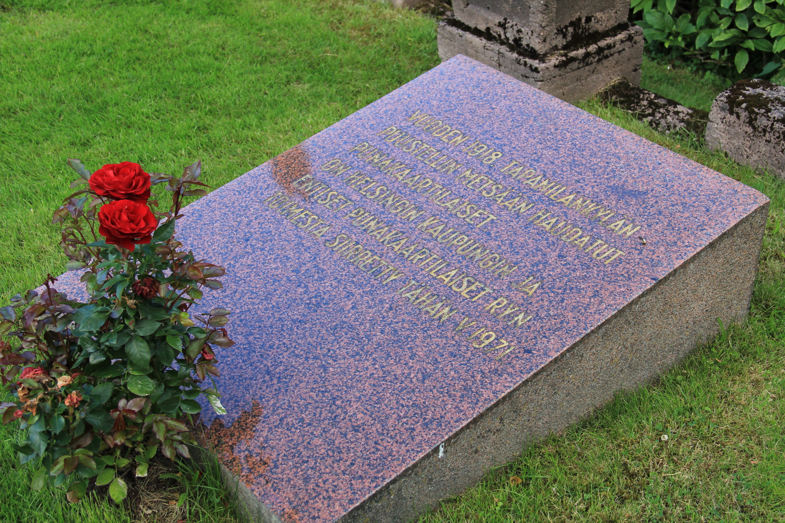 Gravestone of Red Guards members in Finland executed and buried in a mass grave in northern Helsinki woods in Finnish Civil War 1918, Malmi cemetery, Helsinki, Finland. - Remains of the executed were transferred from the mass grave to Malmi cemetery in 1971 by city of Helsinki and the Association of Former Red Guards members.